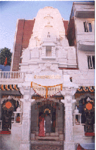 Temple facade at Matunga, Mumbai